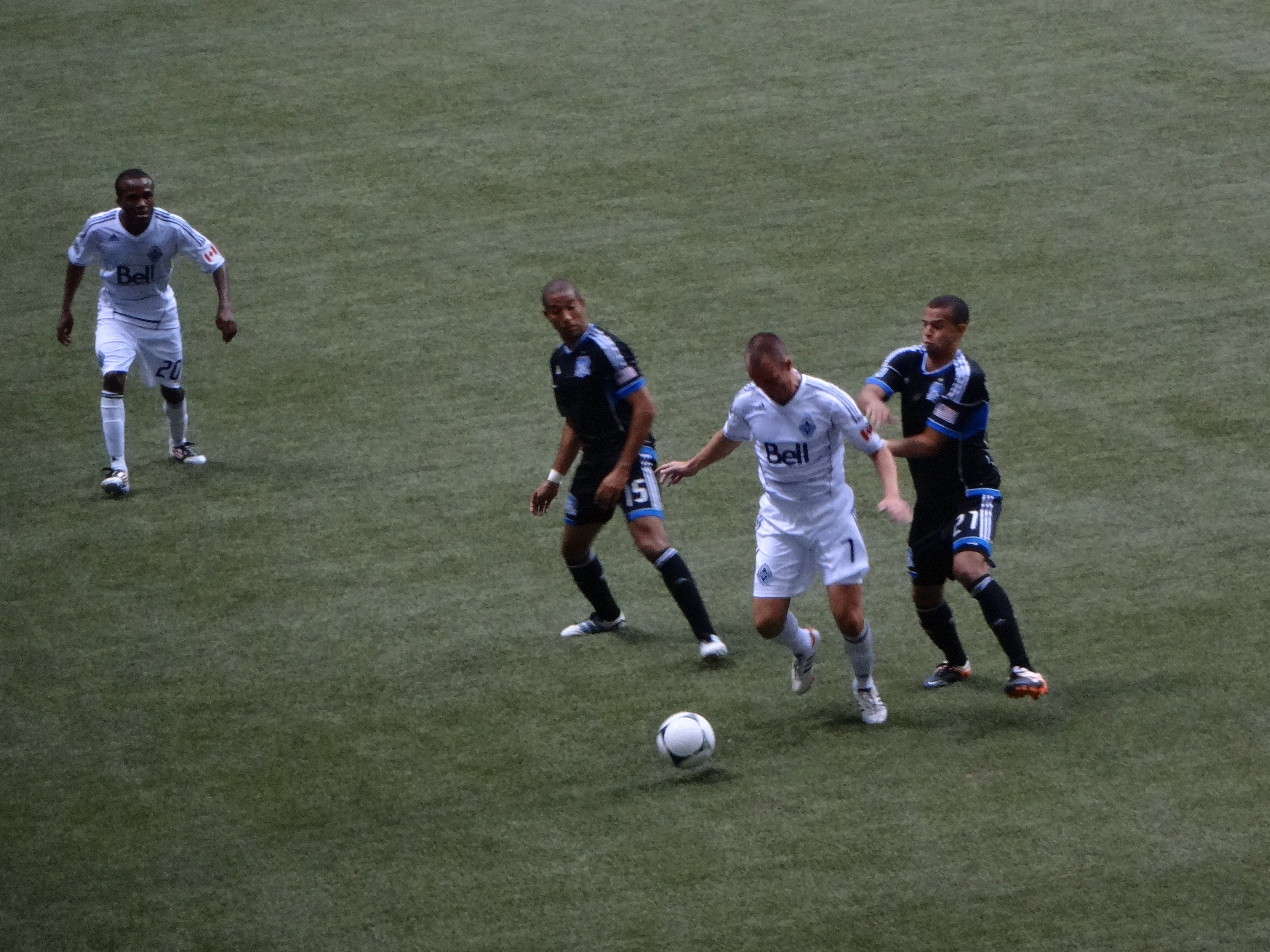 Defended by Justin Morrow and César Díaz Pizarro. Van vs SJ, 22-Jul-2012